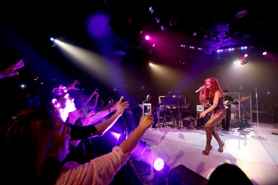 Mexican singer Thalia performs in concert on the VIVA! Tour.